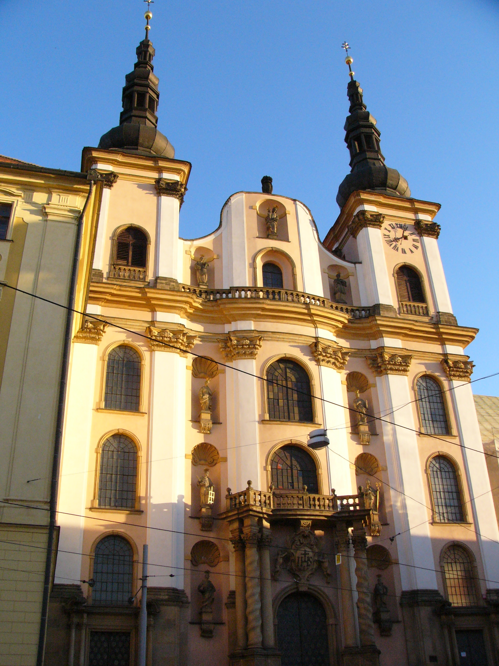 The Church of the Virgin Mary of the Snow in Olomouc (Czech Republic).